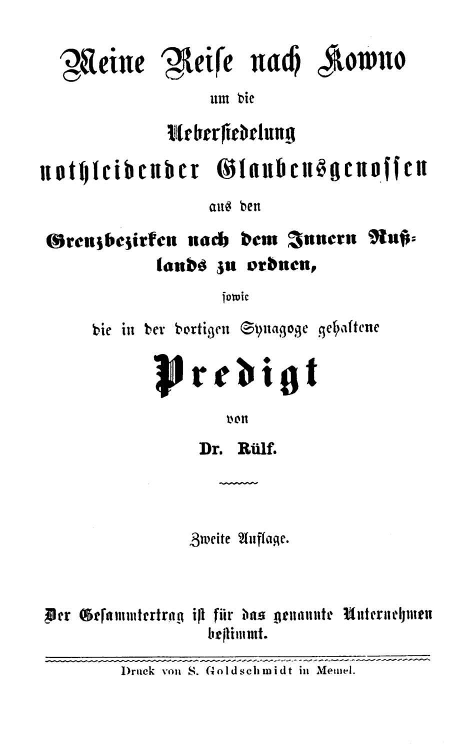 Title page of a book written by Isaac Rülf in 1882, after his journey in Russia